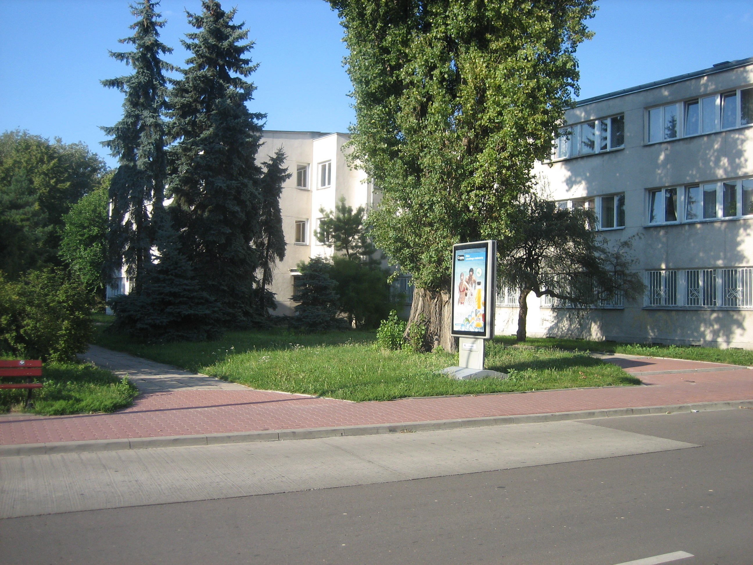 Pruszkowska Street in Warsaw